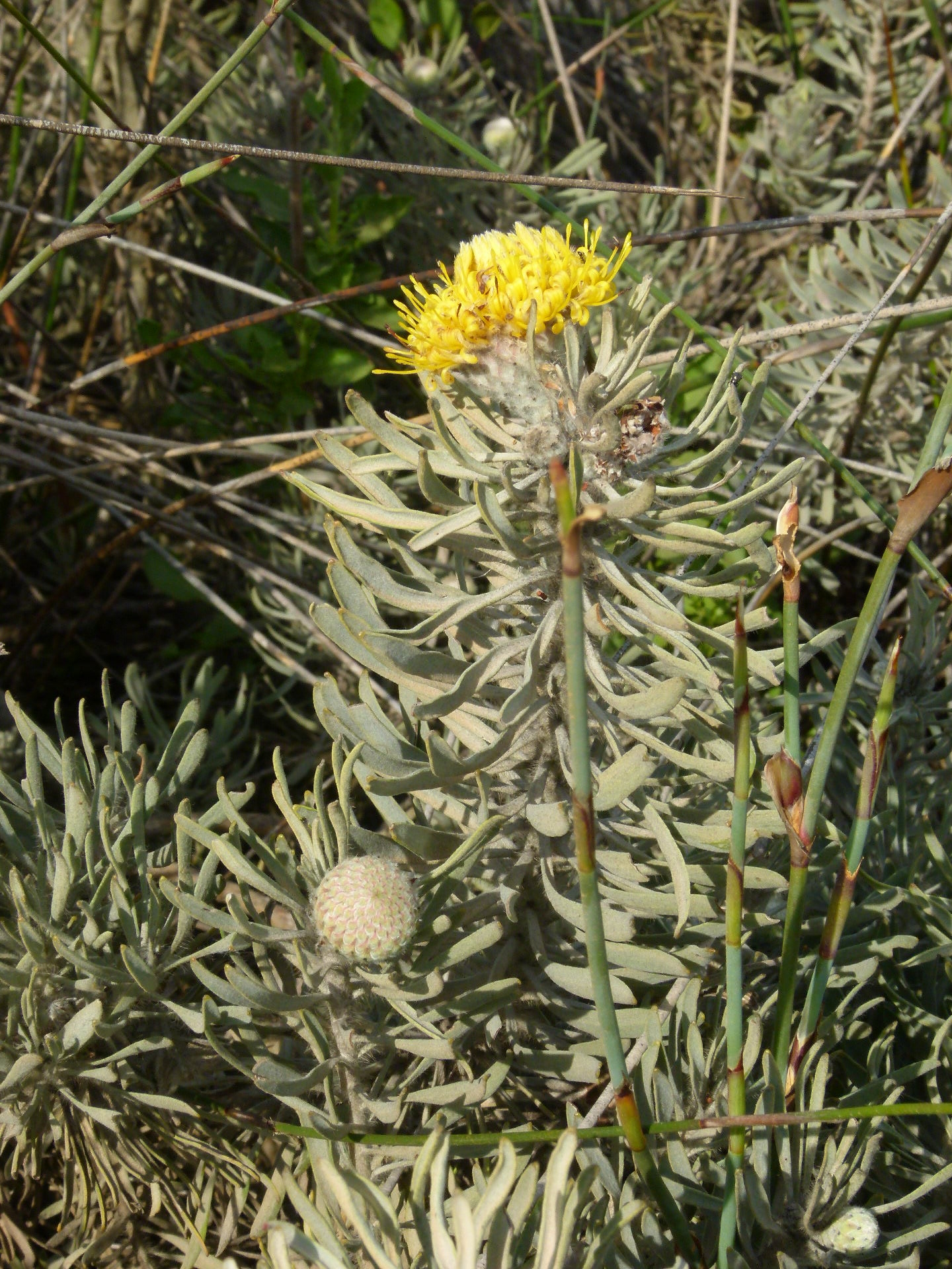 Leucospermum tomentosum, Proteaceae, Cape region, !Khwa ttu